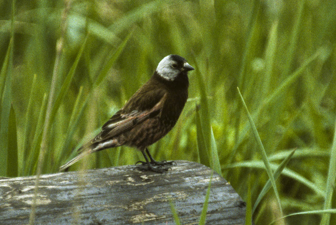 Gray-crowned Rosy-finch - Pribilof Is - Alaska_0038 (1)